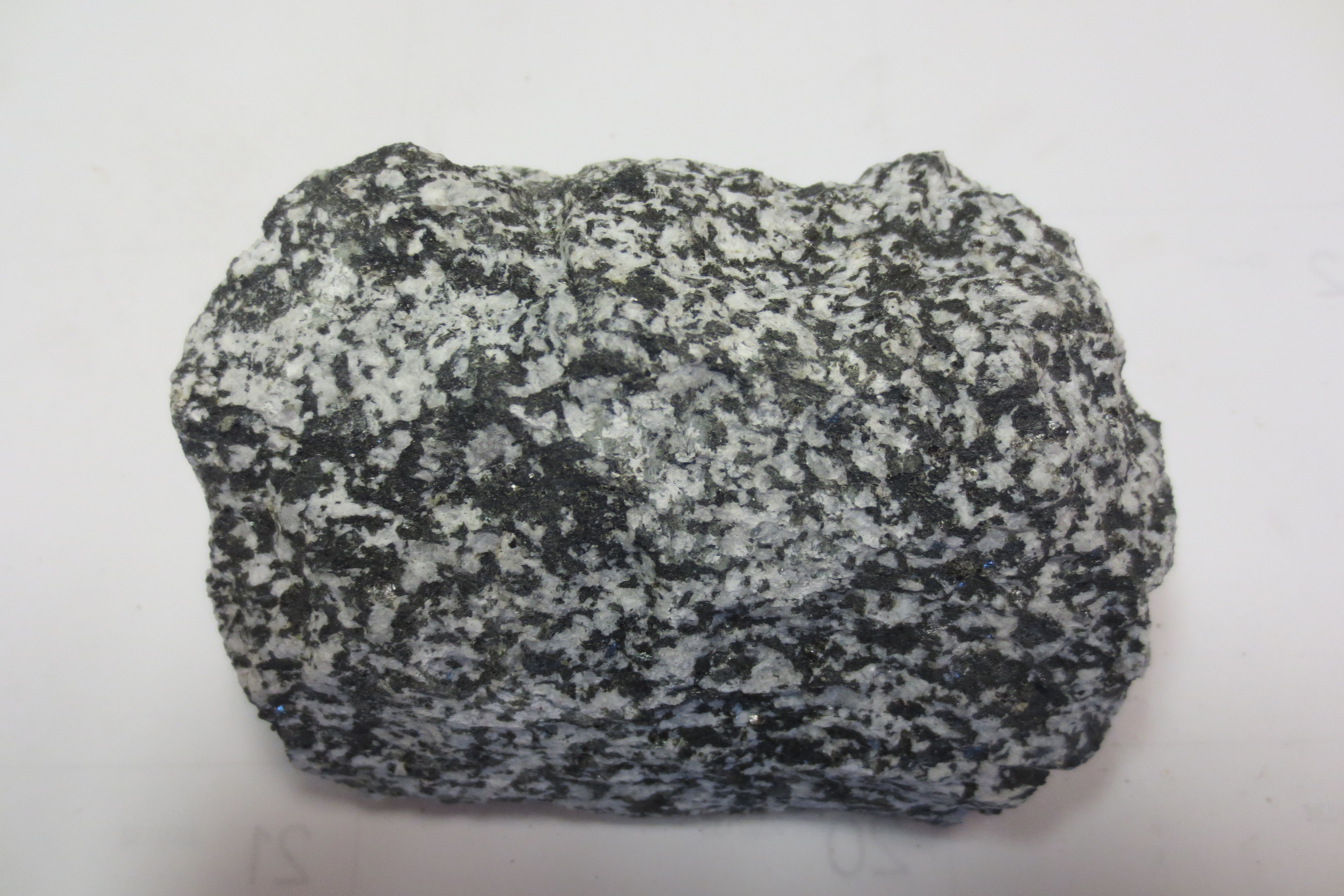 Diorite